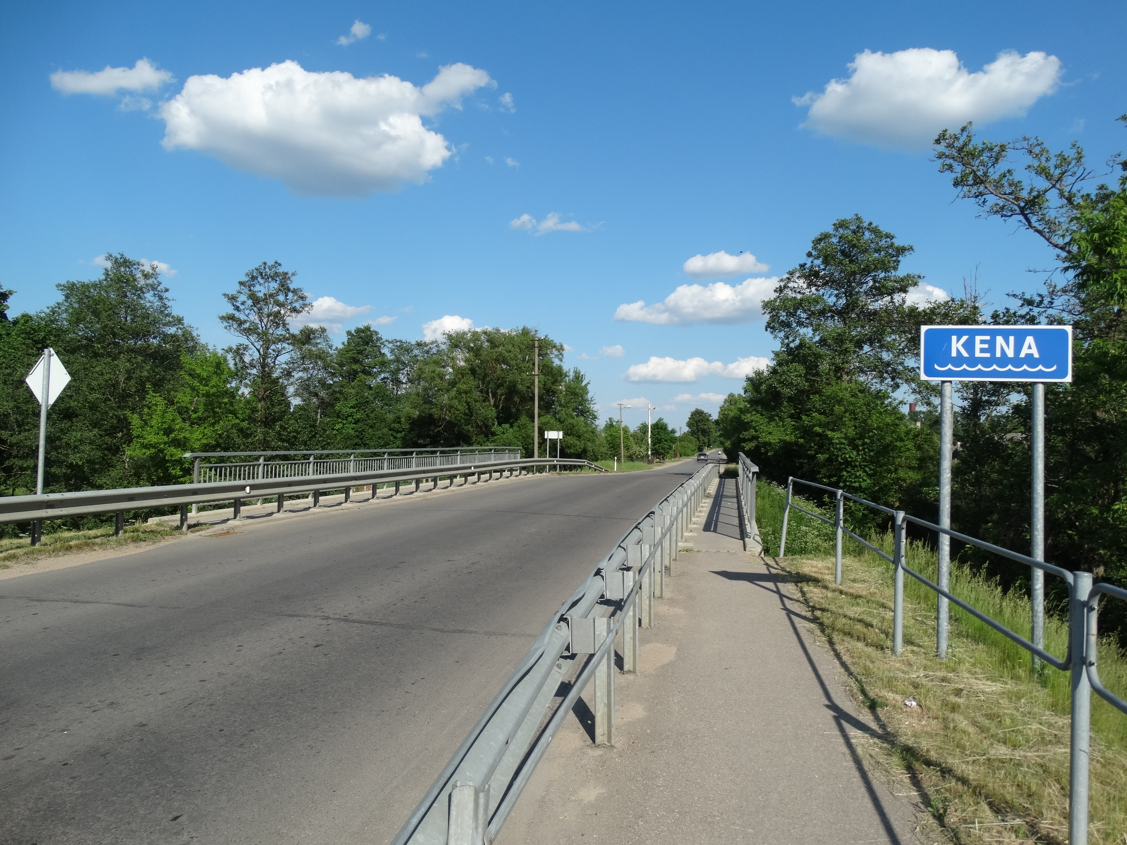 Road 101, Vilnius District, Lithuania